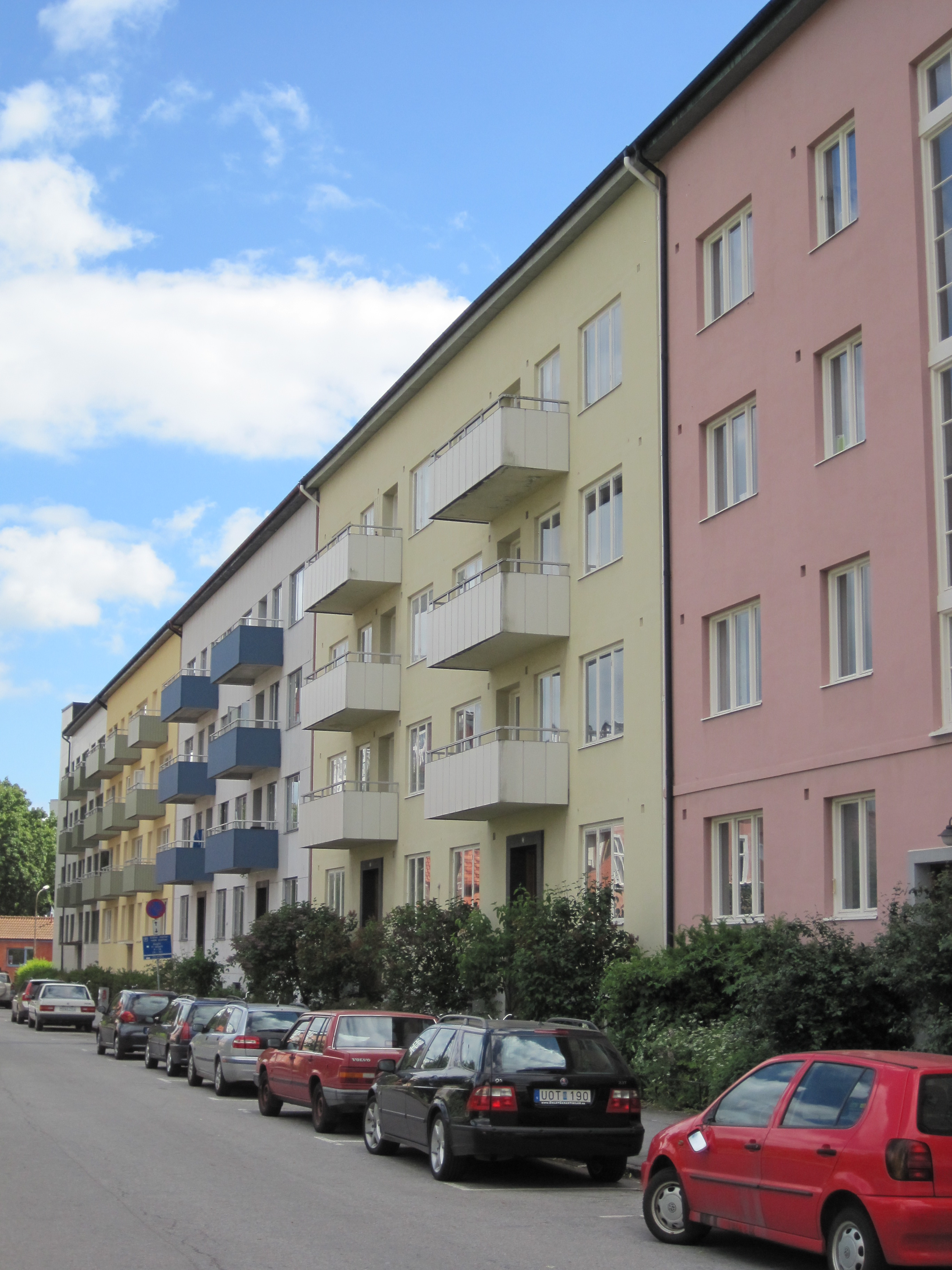 Flormansgatan, a street in southern Lund, just outside the old city walls. The houses seen in the picture, built during the years 1935 to 1938, were designed by architects Helge Barkenius (pink house closest to camera), Alfred Persson (the three following) and Hans Westman (end of the block).